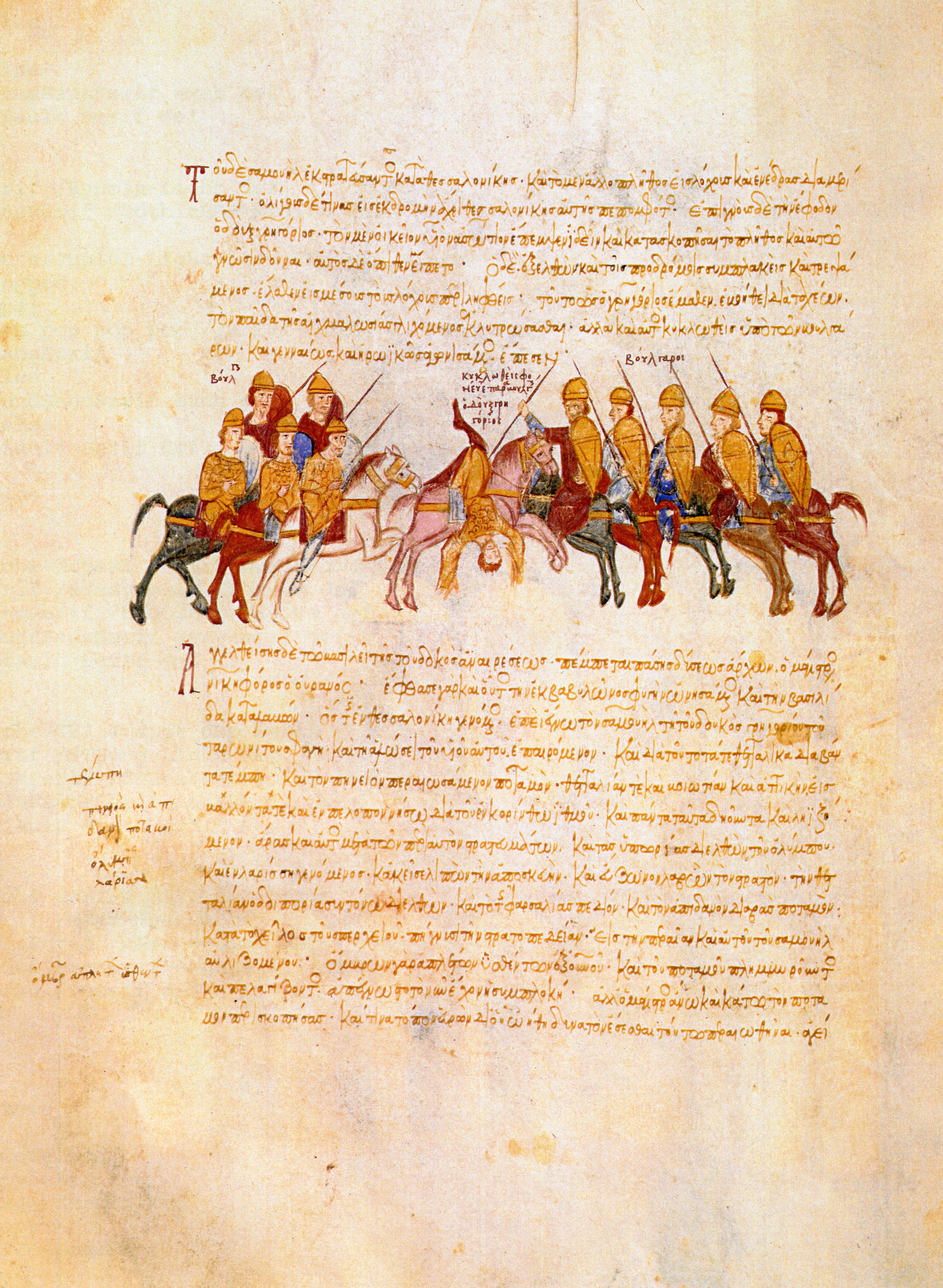 Skyllitzes Matritensis, fol. 184v. Miniature: Bulgarians kill the governor of Thessaloniki Duke Gregory Taronites. Text from the Chronicle of John Skylitzes: "... Samuel was campaigning against Thessalonike. He divided the majority of his forces to man ambushes and snares but he sent a small expedition to advance right up to Thessalonike itself. When duke Gregory [Taronites] learnt of this incursion he despatched Asotios, his own son, to spy on and reconnoitre the [enemy] host and to provide him with inteligence and then he himself came along afterwards. Asiotios set out and came into conflict with the [enemy] vanguard which he put to flight, only to be taken unwittingly in an ambush. On hearing of this Gregory rushed to the help of his son, striving to deliver him from captivity, bu he too was surrounded by Bulgars; he fell fighting nobly and heroically. ..." (Translated by John Wortley, in: John Skylitzes: A Synopsis of Byzantine History, 811-1057: Translation and Notes, p. 323) References: Ioannis Scylitzae Synopsis Historiarum. Editio Princeps. Rec. Ioannes Thurn, p. 341, in: Corpus Fontium Historiae Byzantinae 5 Series Berolinensis, 1973 Tsamakda V.: The illustrated chronicle of Ioannes Skylitzes in Madrid, p. 221 Божилов Ив.: Българите във Византийската империя, p. 183 Grabar A., Manoussacas M.: L'illustration du manuscript de Skylitzes de Madrid, p. 100 Божков А.: Миниатюри от Мадридския ръкопис на Йоан Скилица, p. 225